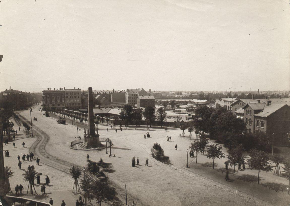 Frihedsstøtten in Copenhagen, Denmark. Looking towards Vestre Voulevard.